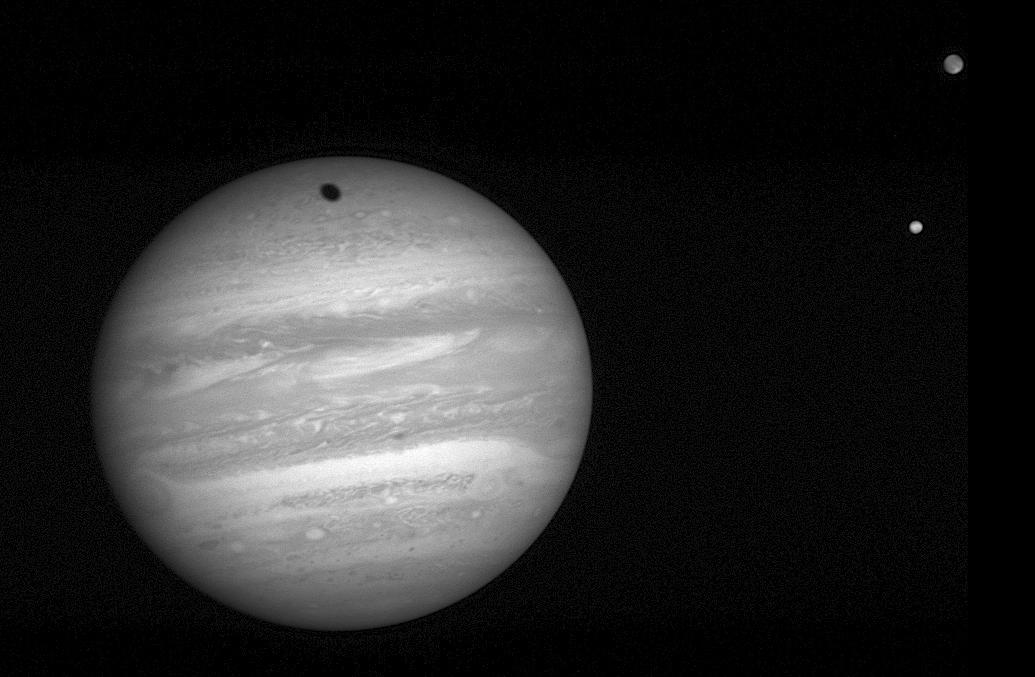 The New Horizons Long Range Reconnaissance Imager (LORRI) took this 2-millisecond exposure of Jupiter at 04:41:04 UTC on January 24, 2007. The spacecraft was 57 million kilometers (35.3 million miles) from Jupiter, closing in on the giant planet at 41,500 miles (66,790 kilometers) per hour. At right are the moons Io (bottom) and Ganymede; Ganymede's shadow creeps toward the top of Jupiter's northern hemisphere. Two of Jupiter's largest storms are visible; the Great Red Spot on the western (left) limb of the planet, trailing the Little Red Spot on the eastern limb, at slightly lower latitude. The Great Red Spot is a 300-year old storm more than twice the size of Earth. The Little Red Spot, which formed over the past decade from the merging of three smaller storms, is about half the size of its older and "greater" counterpart.